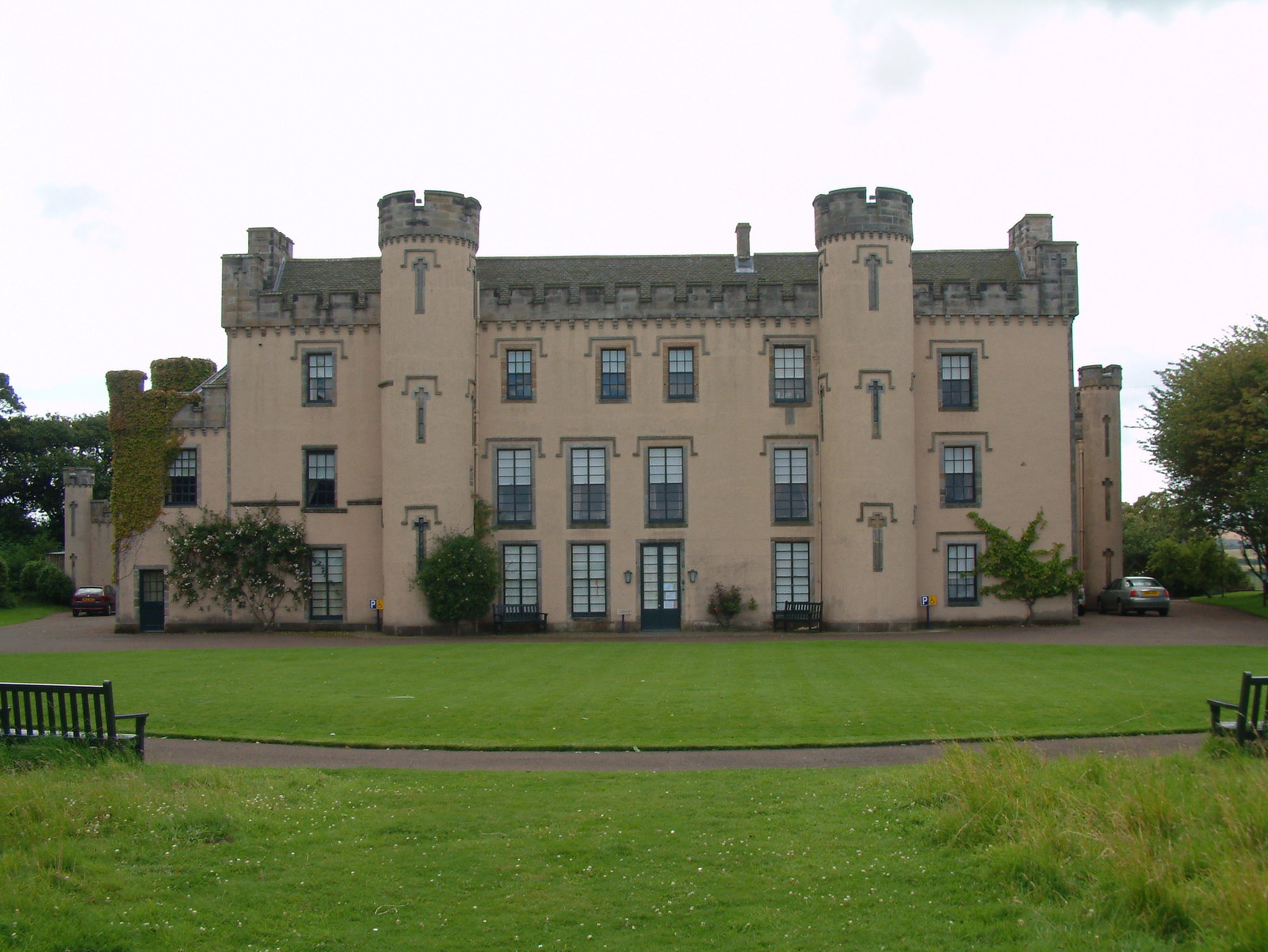 The House of the Binns